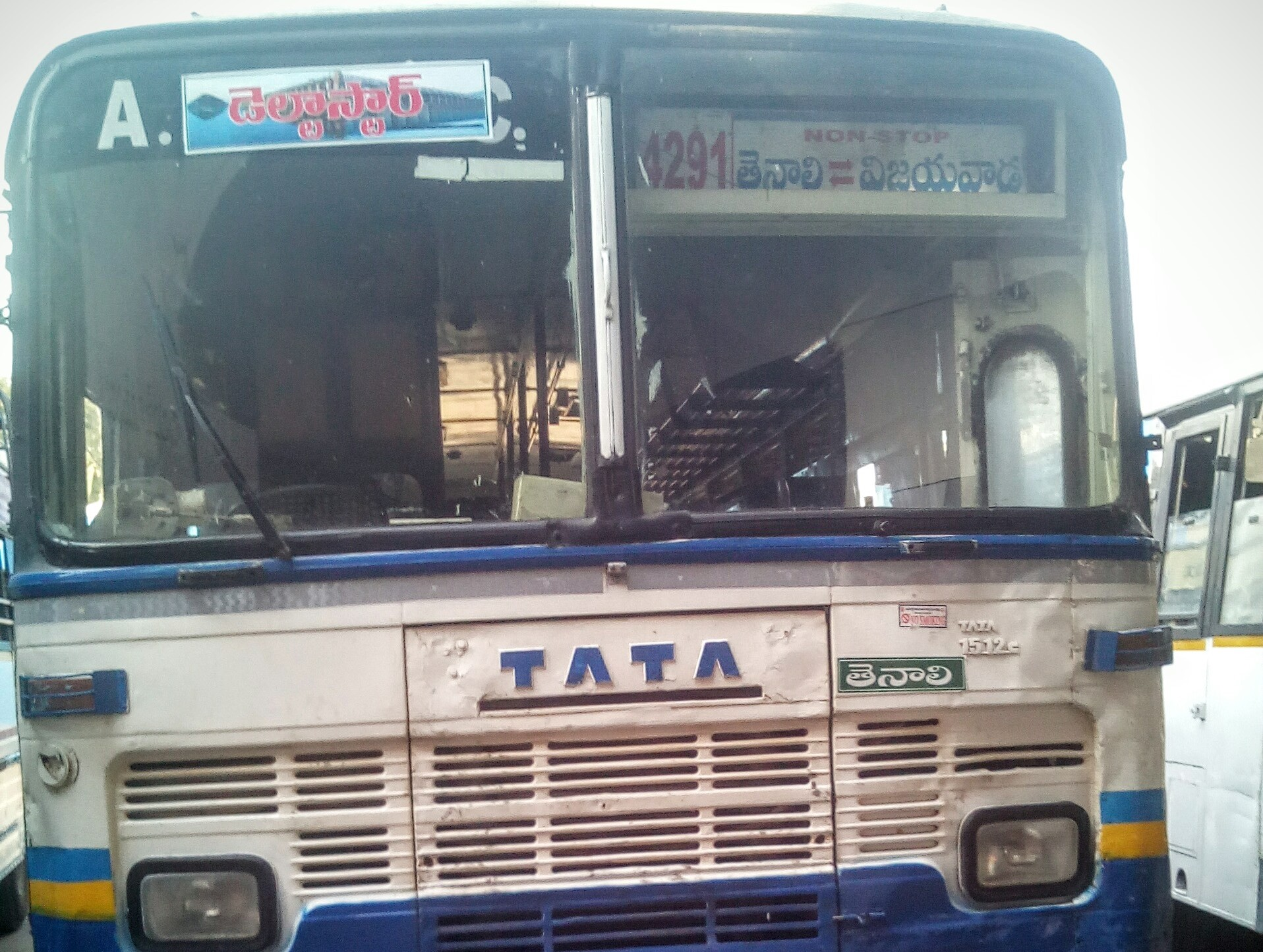 Tenali-Vijayawada nonstop bus at Tenali bus station